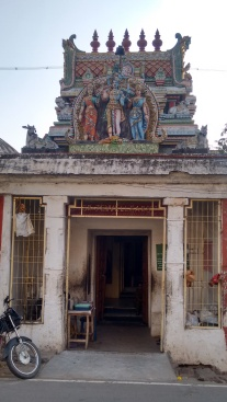 Thanjavur sankaranarayanar temple தஞ்சாவூர் சங்கரநாராயணர் கோயில்